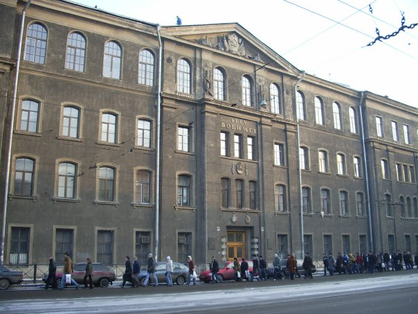 Voenmeh